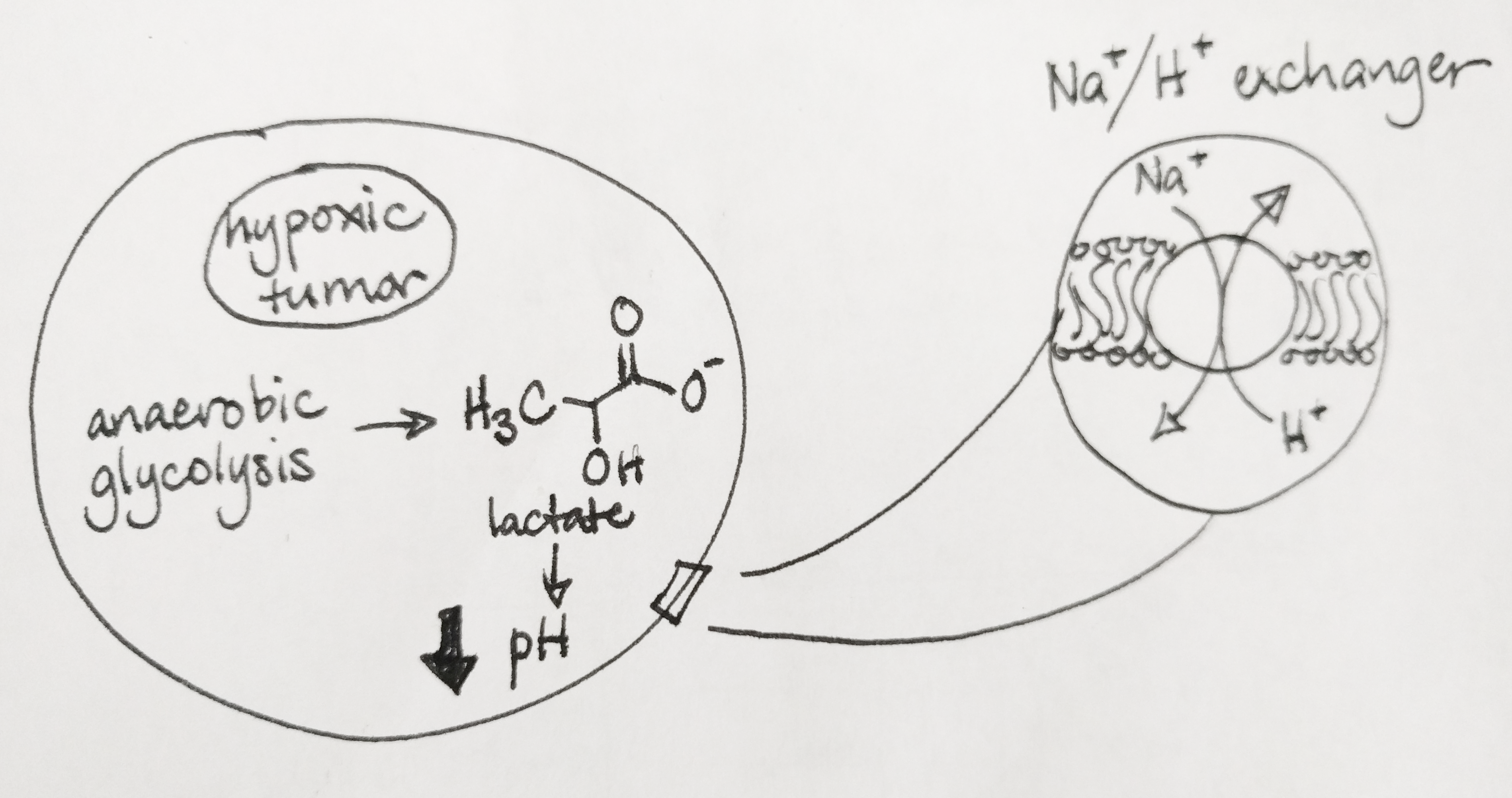 Effects of tumor hypoxia on intracellular pH